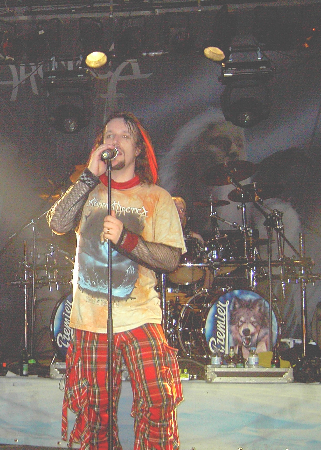 Tony Kakko (Sonata Arctica) live at Helmond, 28th April 2006.